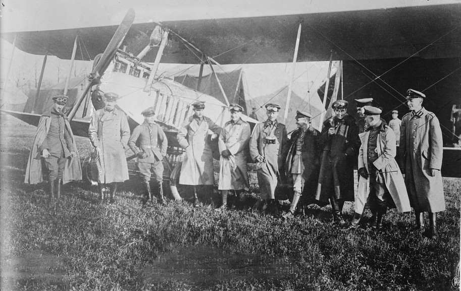 German pilots in the vicinity of Reims, France, during the First World War, in front of an LVG B.I. Note that it was tried to erase the original German description: "Im Fliegerlager vom Reims. Jeder von Ihnen ist ein Held."